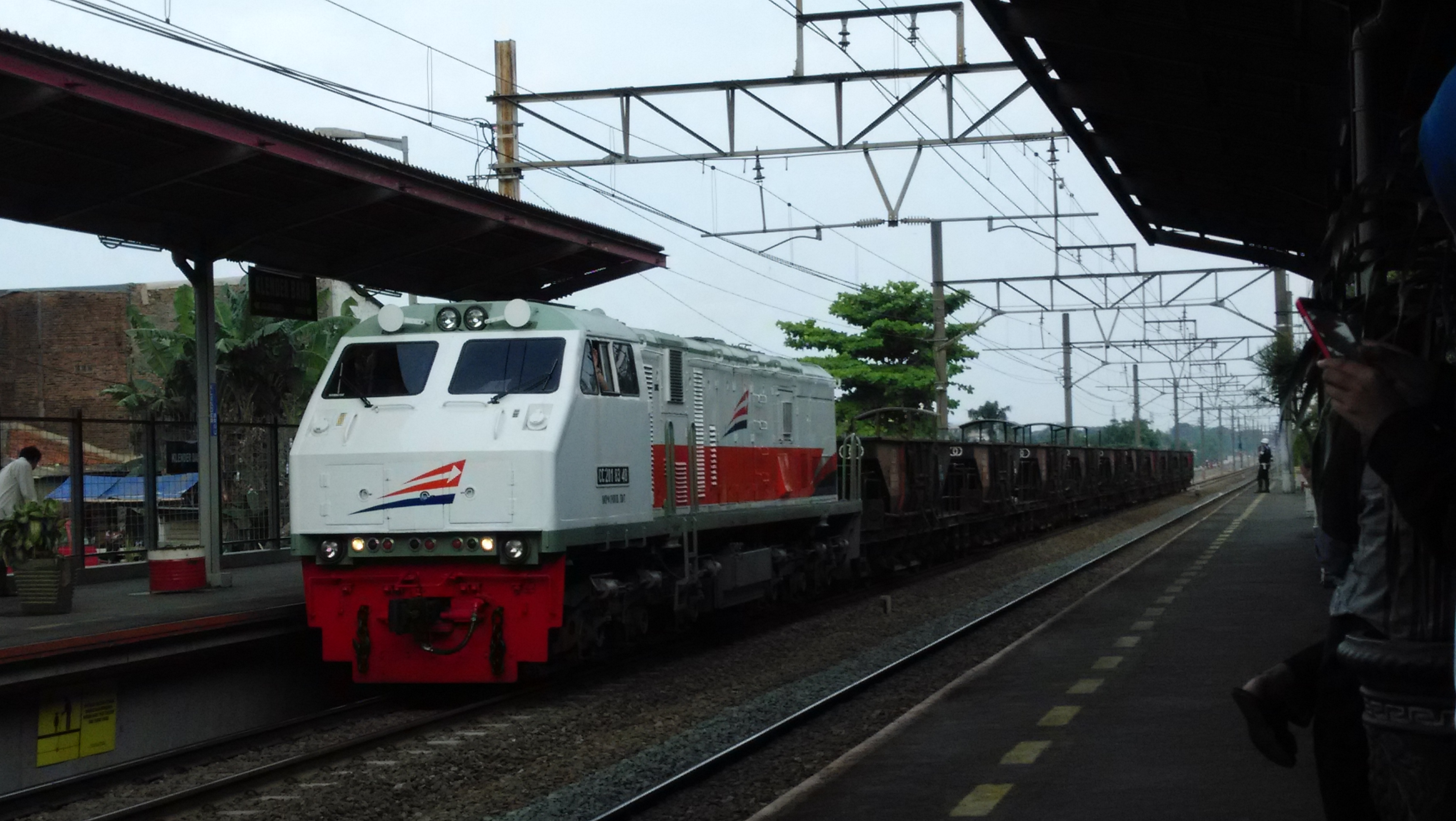 A ballast hopper delivery special headed by a single GE U18C no. CC2018348 with a modified Goninan-style cab built by Lahat Workshop in South Sumatera passes Klender Baru Station in East Jakarta, Indonesia, November 2014.